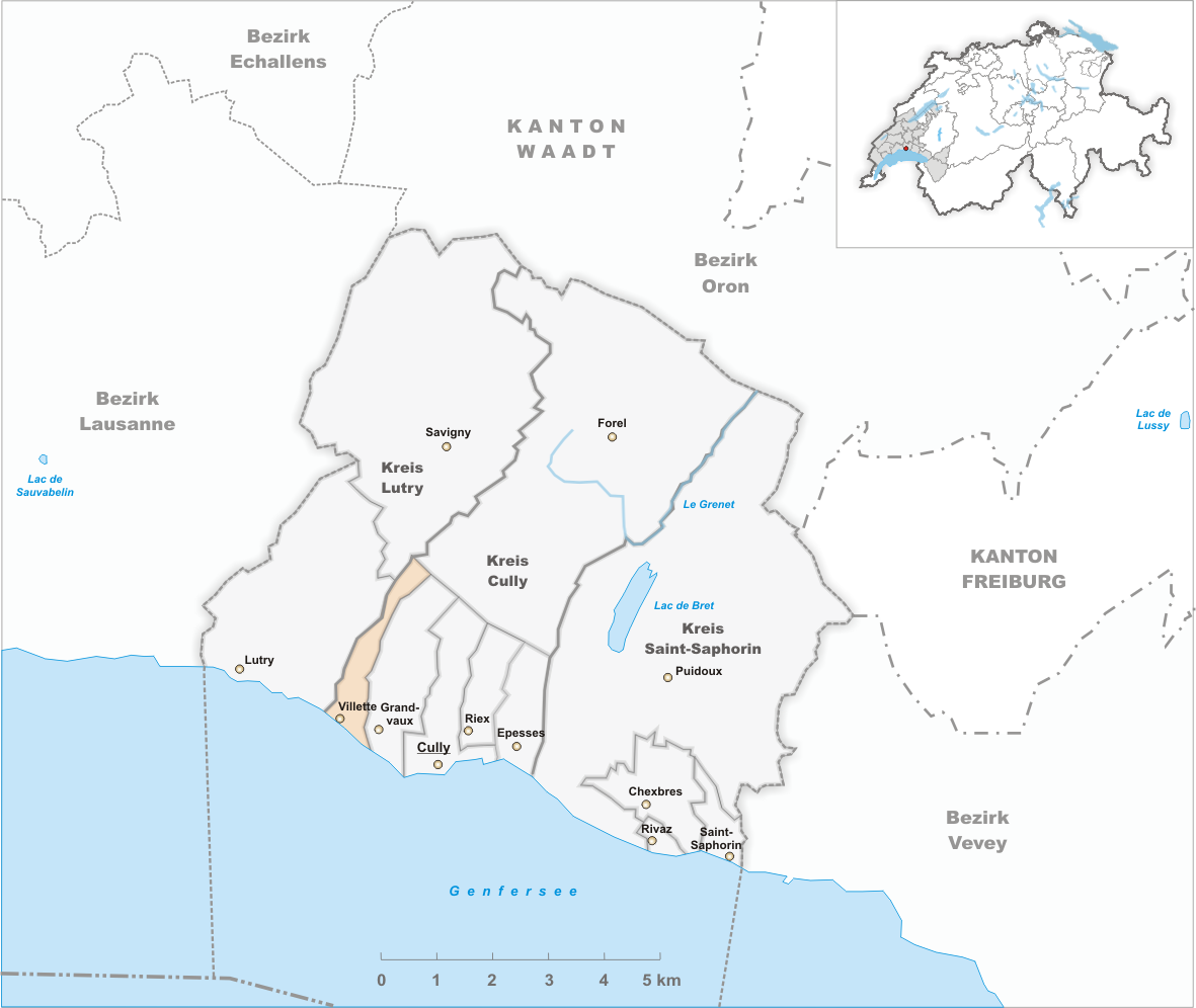 Municipality Villette